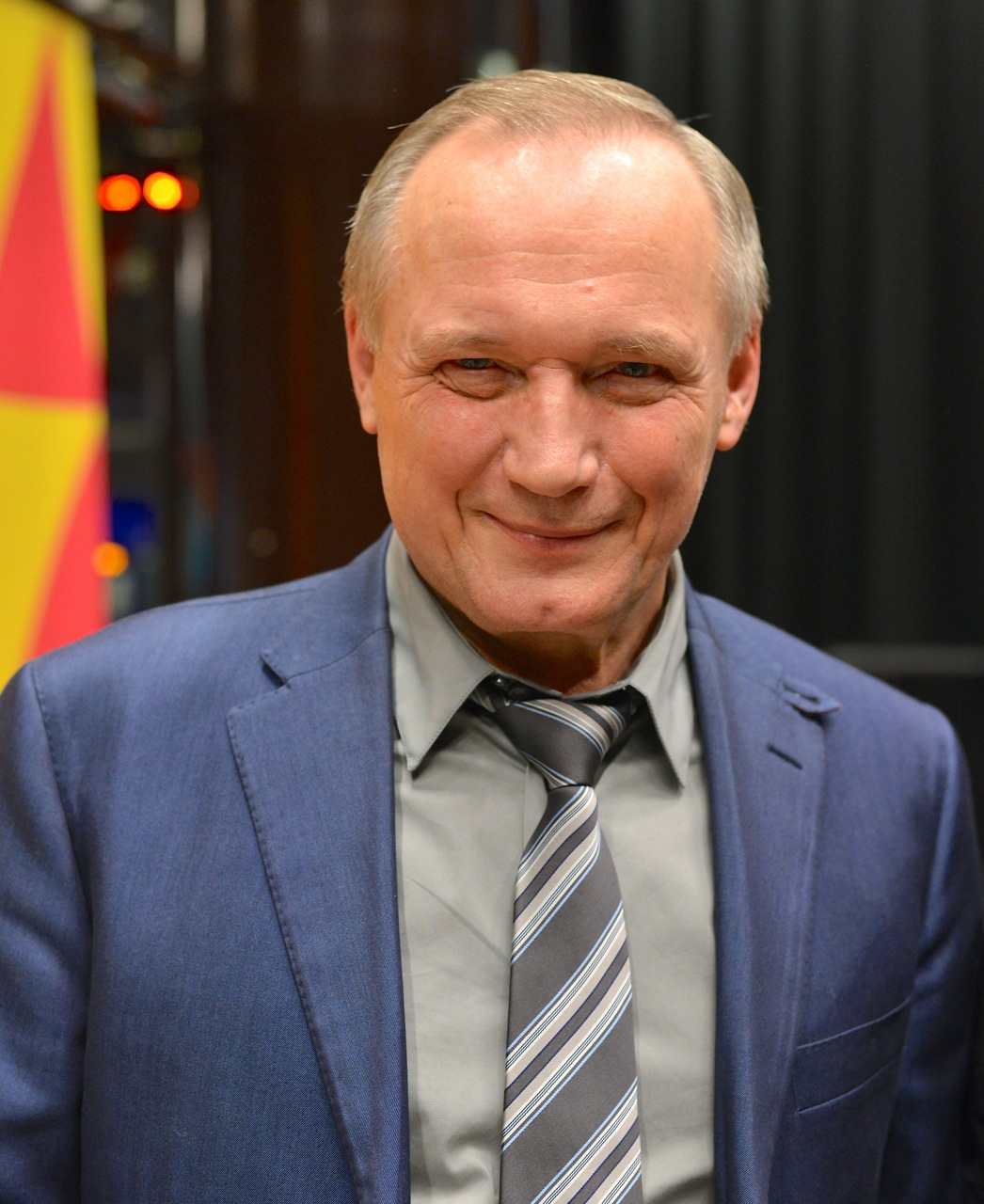 Uladzimir Niakliaew February 25, 2014 in Stockholm when he receives Tucholsky Prize by Swedish PEN.